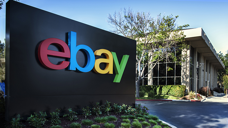 eBay Office